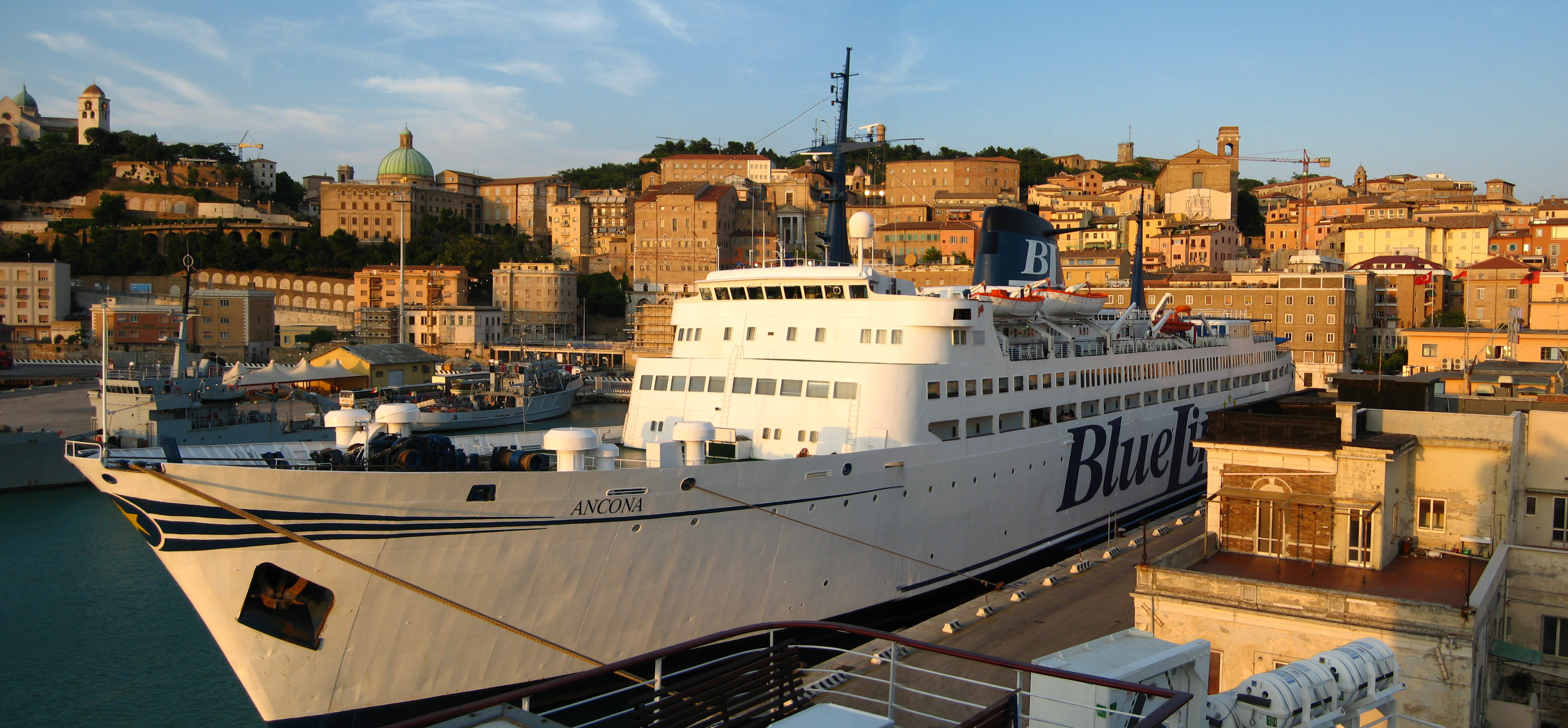 Blue Line Ferry "Ancona" (built 1966-1969), Porto di Ancona, Italy IMO Number: 6608098 MMSI Number: 356955000 Callsign: HOWF Length: 141 m Beam: 21 m